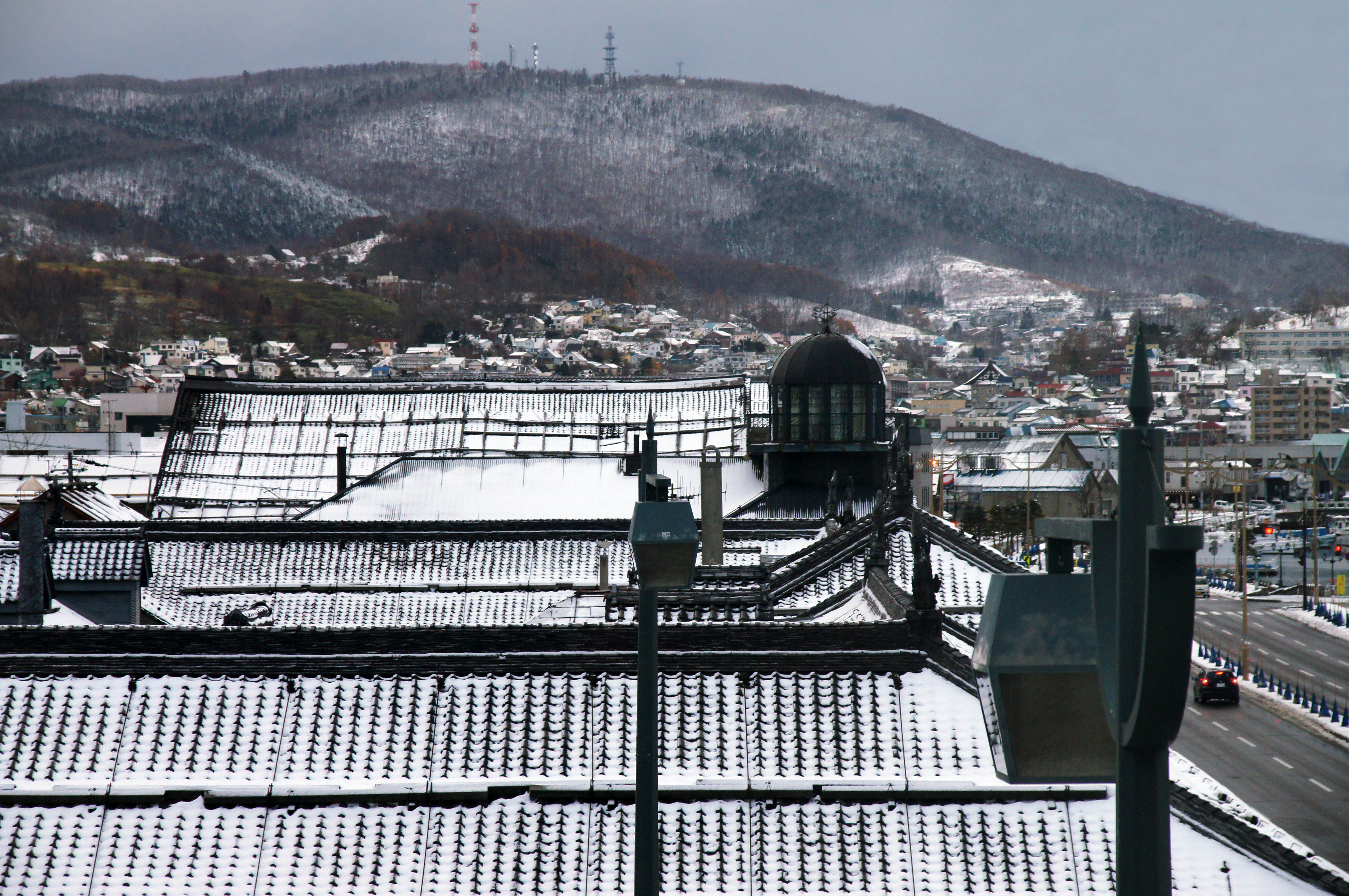 Former Otaru Warehouse in Otaru, Hokkaido prefecture, Japan